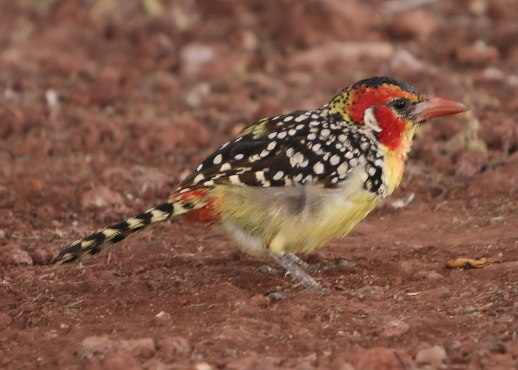 Red-and-yellow Barbet (Trachyphonus erythrocephalus), picture taken at Lake Manyara Nationalpark, Tanzania